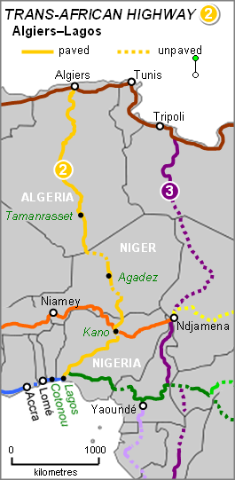 Map of Trans-Sahar Highway (Algiers–Lagos Highway)